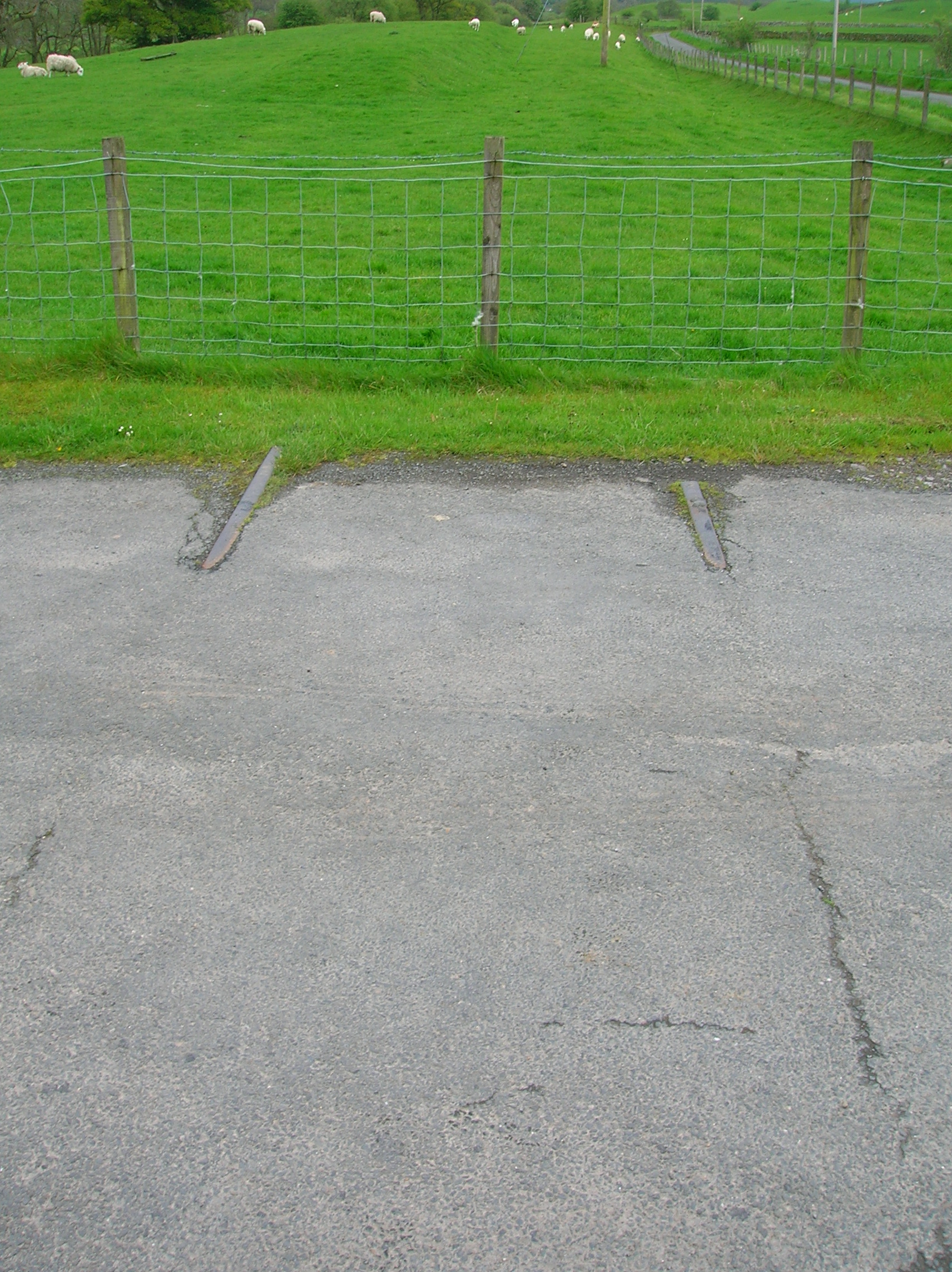 Crossford station level crossing, Moniaive, Dumfries & Galloway, Scotland